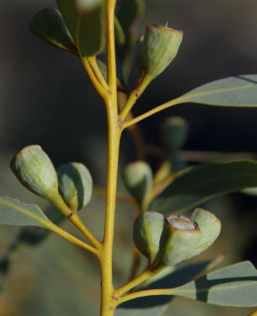 Fruit of Eucalyptus eudesmioides, growing near the Waddington-Wongan Hills Rd, 4.8km northwest of Wongan Hills